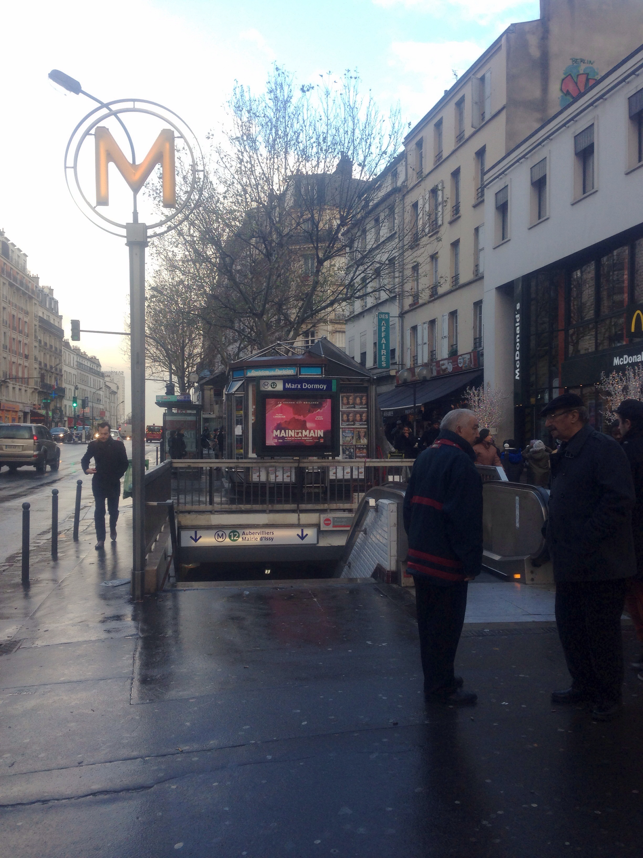 Entry of Marx Dormoy Paris metro station on line 12